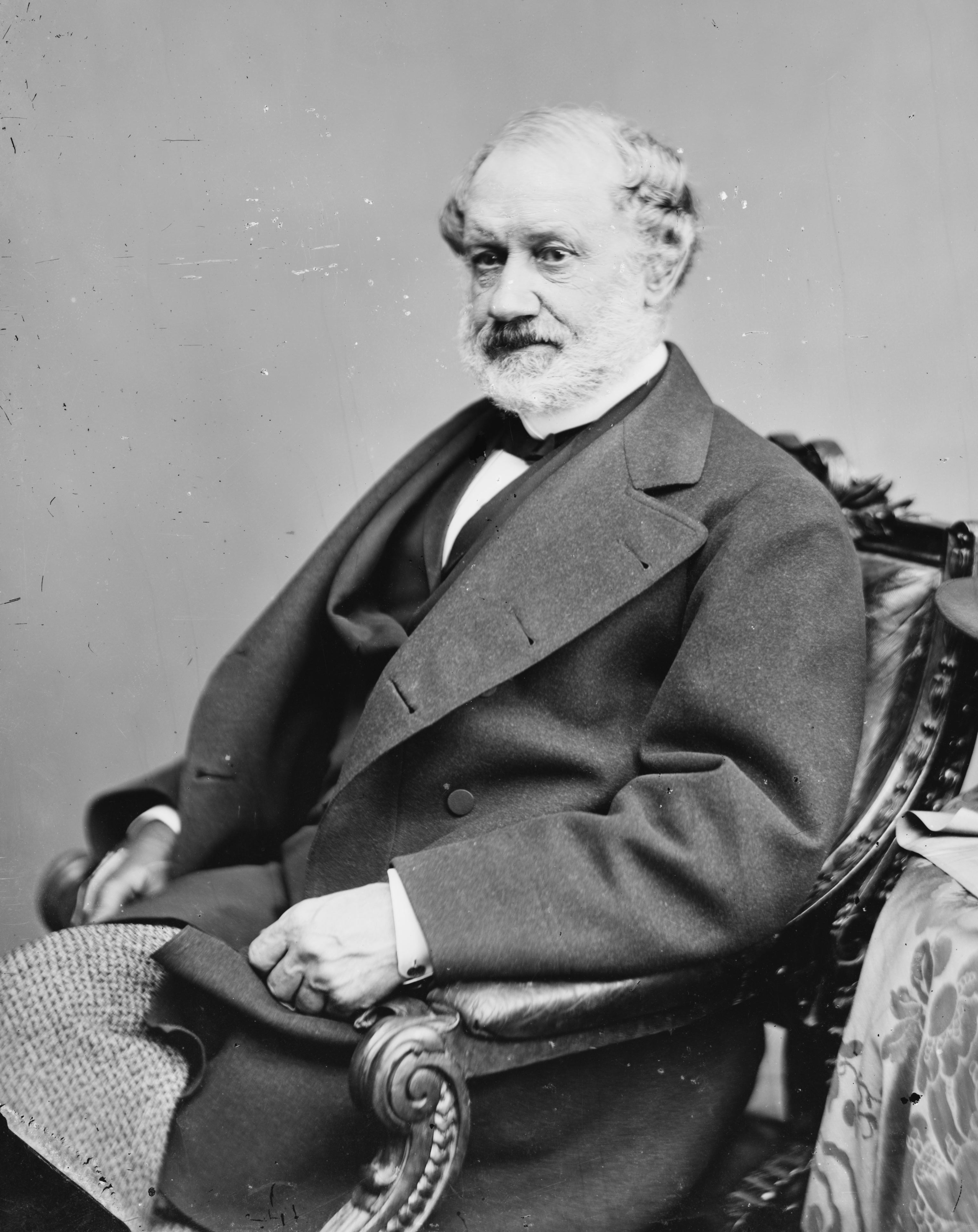 Adolph E. Borie, former Secretary of the Navy of the United States.